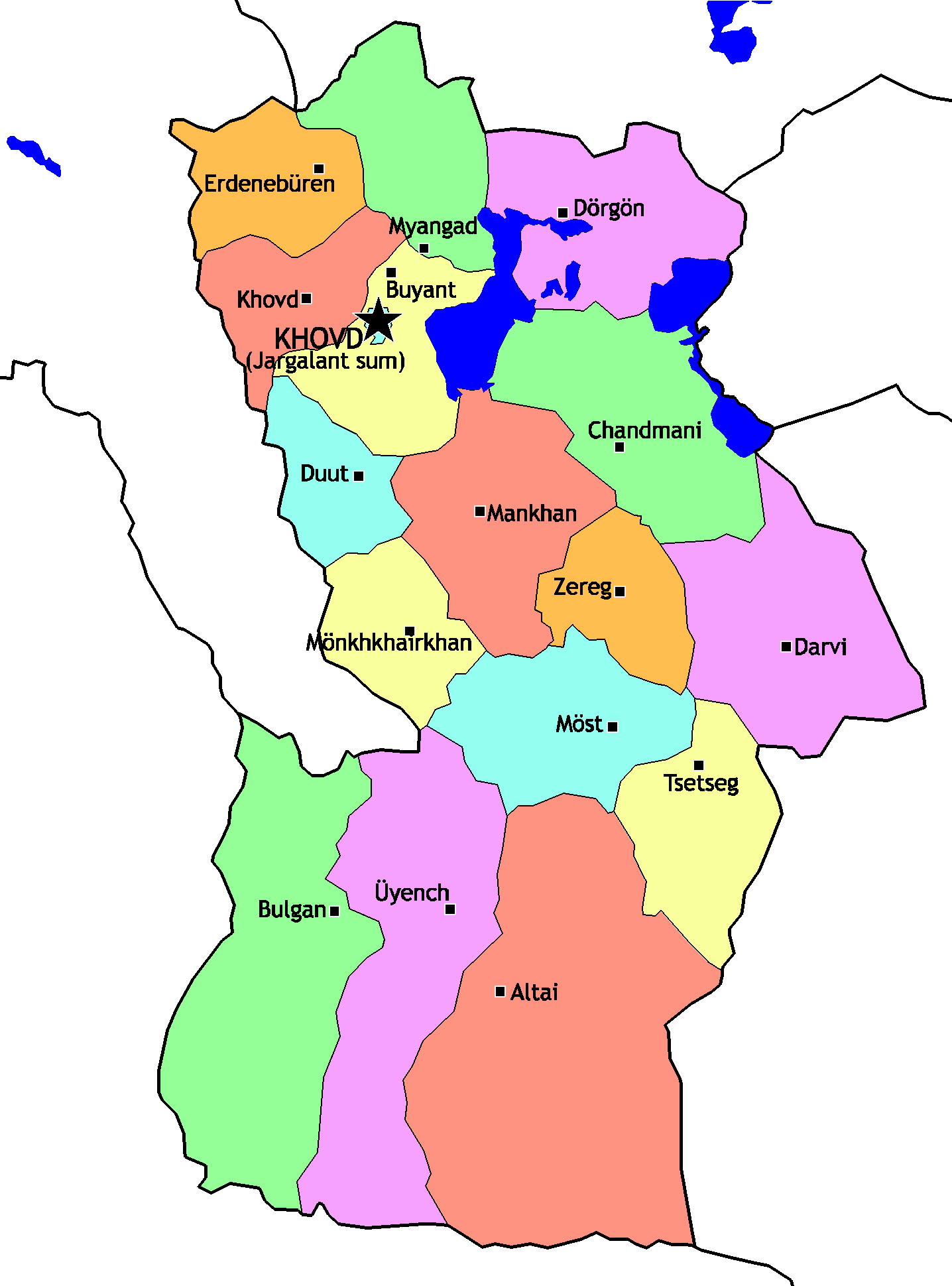 Map of the Khovd aimag with the sums